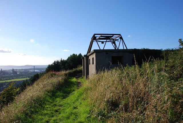 Coast Defence Radar Station Swansea Bay CHL/Coast Defence Radar Station. The Coast Defence/Chain Home Low chain was set up to provide radar plotting of both shipping and aircraft movements and operated on the same 1.5 m wavelength as CHL stations. The CD/CHL stations were originally manned solely by the Army, or jointly by all three services, until the RAF assumed responsibility for them. A 60 Group (RAF) Statement Map (2nd edition) identifies Swansea Bay as a CHL (Type 2) Station.The equipment was housed in a building sharing many similarities with the brick CHL combined transmitter/receiver block, but the gantry supporting the aerial array was mounted on top of the block rather than on the ground with four buttresses for support. Three concrete buildings survive at the Swansea Bay site on the east side of a public footpath running along the ridge that overlooks Swansea Bay. The largest of these, at the north end of the site, was the operations block which is of the standard design illustrated in the diagram above. It is divided into three rooms with some of the windows retaining their metal shutters. The building is completely empty apart from some wiring remnants. A 10 foot high metal gantry on the roof would have mounted the radar array.The power house is located a few yards to the south, this is a smaller rectangular concrete building with a blast protected door at one end and small vents high in each wall. As this station was not connected to mains electricity this building would have housed a diesel generator. All that remains now is the concrete engine bed. An identical building stands 100 yards to the south east close to an electricity pylon. This would have housed a standby generator which would have been used if the main set failed.